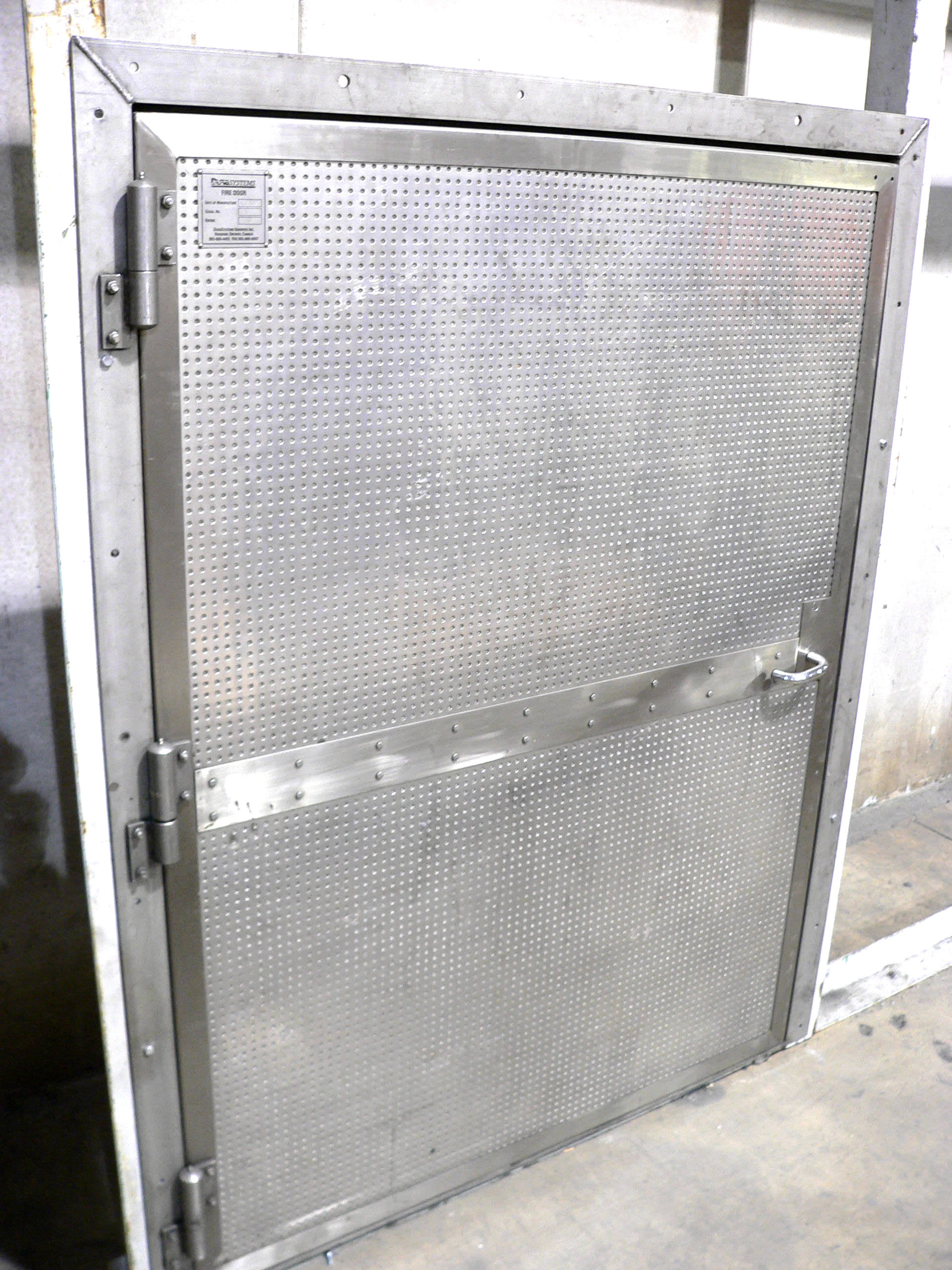 Blast and fire-resistant door made with Durasteel composite board.